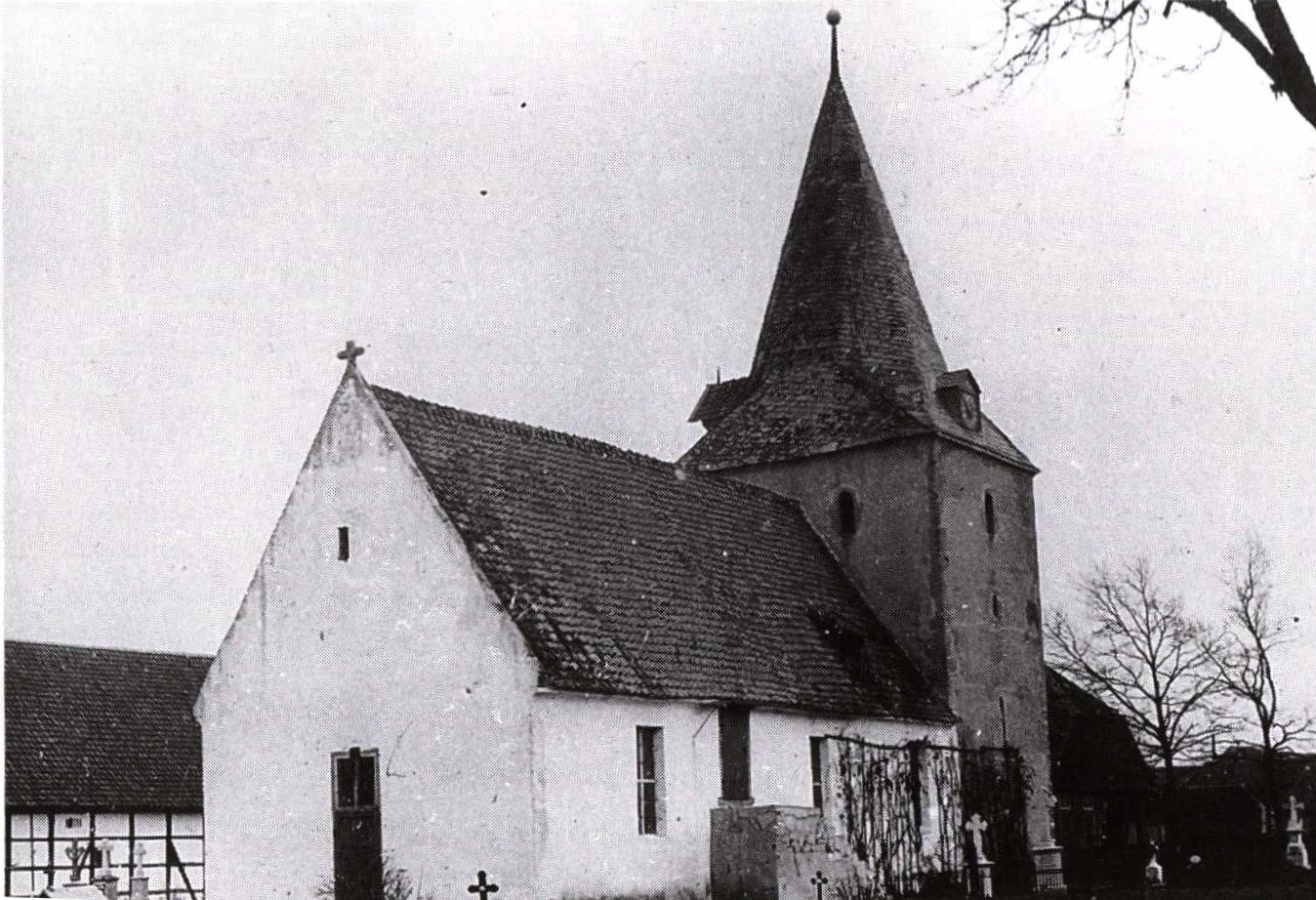 Alte Kirche von Rethen (Vordorf) um 1899 The old church of Rethen in the year 1899